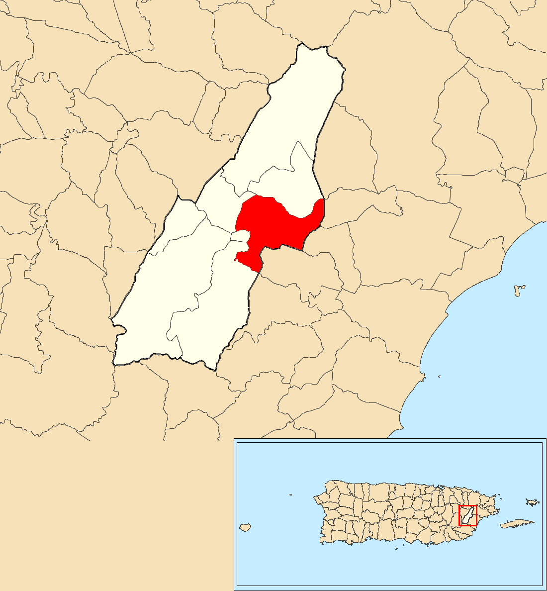 Collores, Las Piedras, Puerto Rico locator map